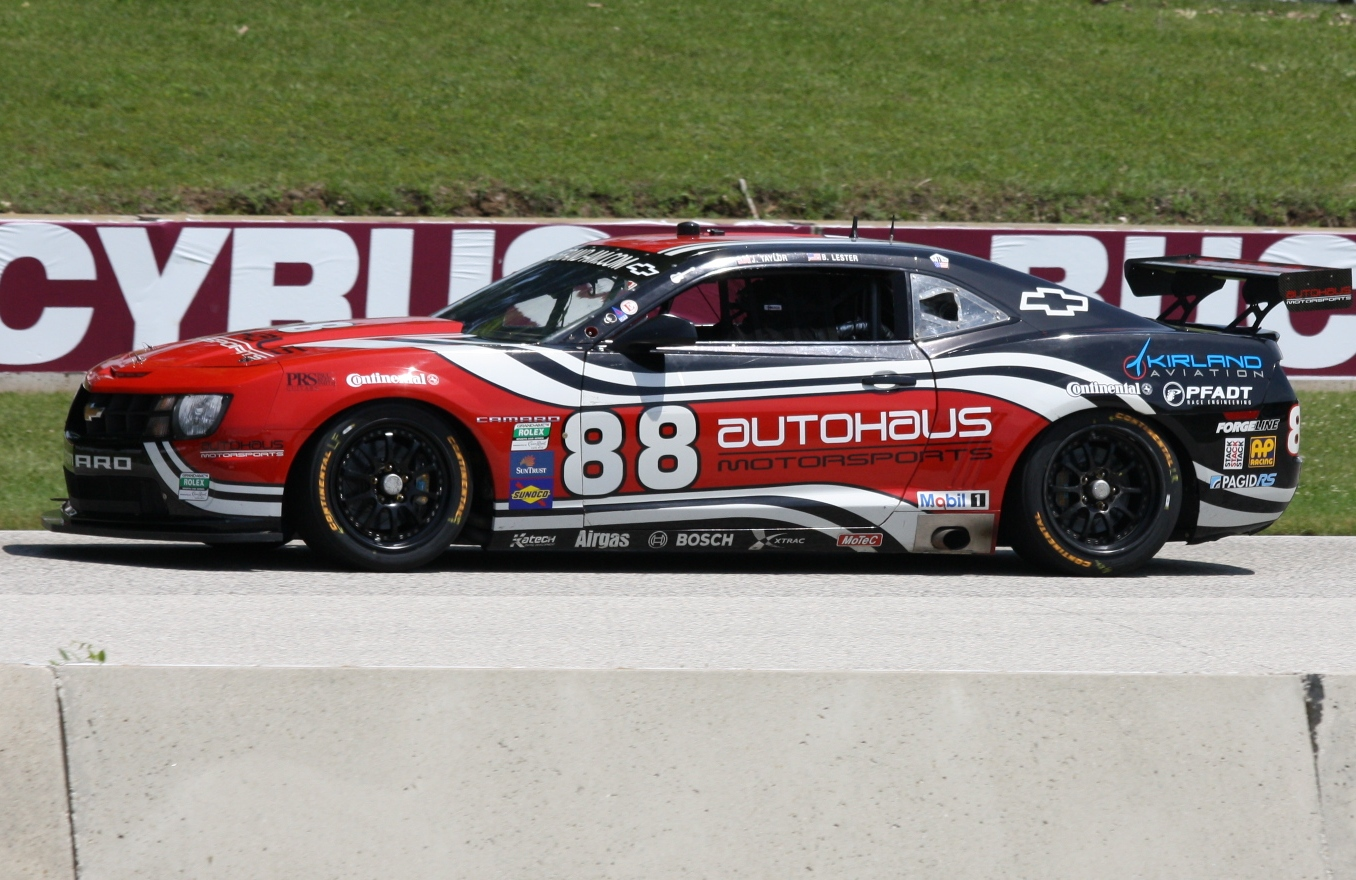 The GT sports car of Bill Lester and Jordan Taylor racing at an event at Road America.